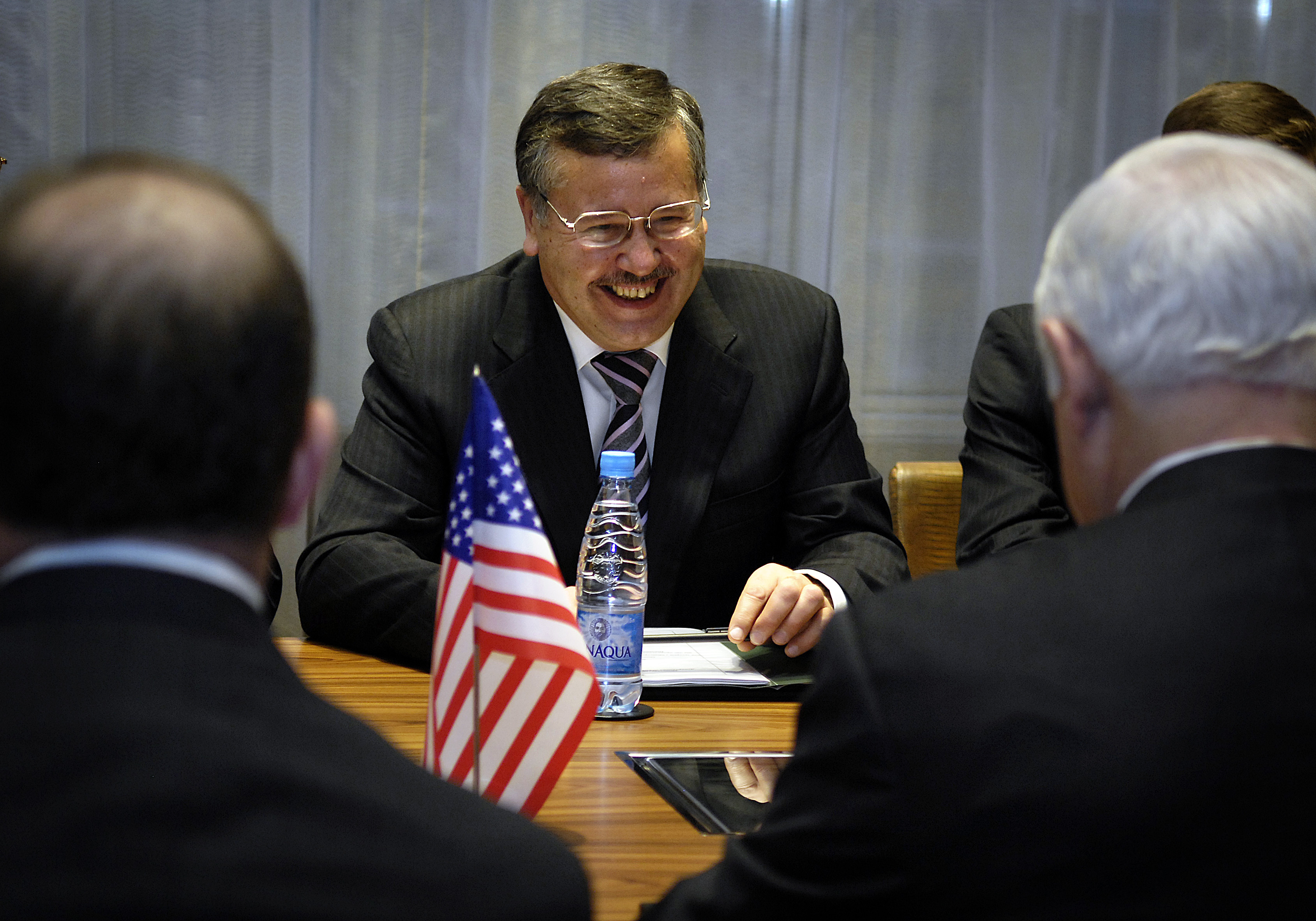 Defense Secretary Robert M. Gates meets with Ukrainian Defense Minister Anatoliy Hrytsenko in Kyiv, Ukraine, Oct. 21, 2007. Gates and Hrytsenko met as Gates arrived to attend the Southeast Europe Defense Ministerial, which Ukraine is hosting.